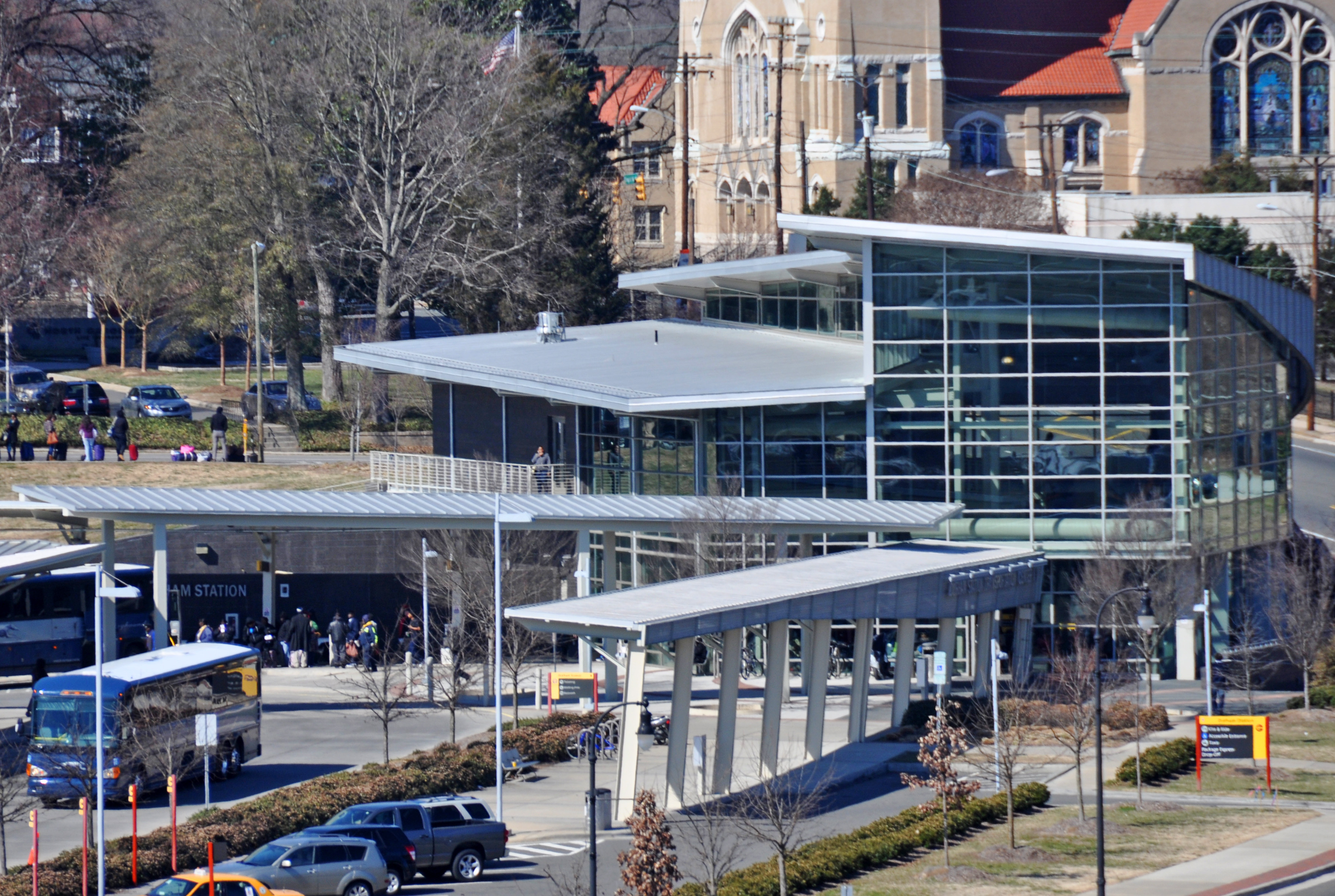 Downtown Durham Station